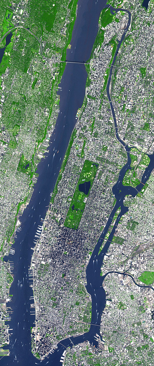 This false-color satellite image shows Manhattan, with Queens and Brookyn to the south east and New Jersey to the west. Central Park is visible in the center. This false-color image was acquired on Sept. 8, 2002, by the Advanced Spaceborne Thermal Emission and Reflection Radiometer (ASTER) aboard NASA's Terra satellite. Vegetated land surface is green, paved urban areas are a whitish blue, and water is dark blue. Image cropped by the uploader on 5 August 2006.